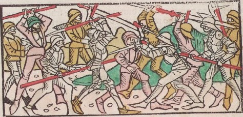 Battle of Kressenbrunn